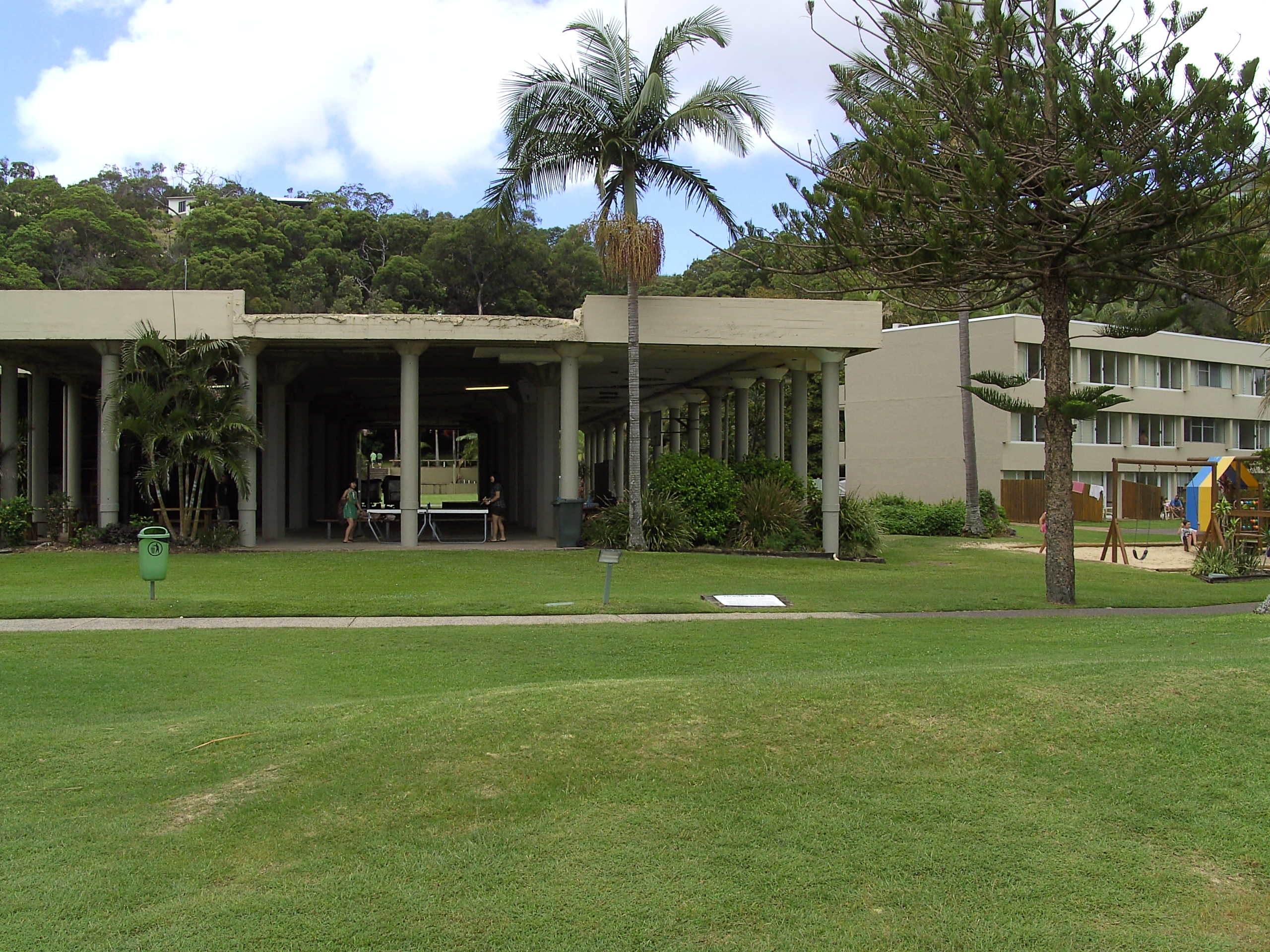 At Tangalooma, the flensing deck remains as one of the only reminders of the resort's past as a whaling station. The upper deck was the flensing area, and a ramp came from it (see cut-out) to the water for whales to be hauled out of the water. Below were the cooking and rendering apparatus. To the right is a modern resort accommodation block.